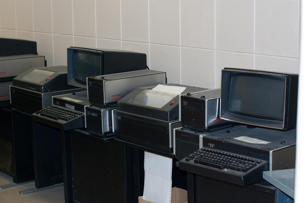 Teletypewriters in a Canadian Emergency Government Headquarters.